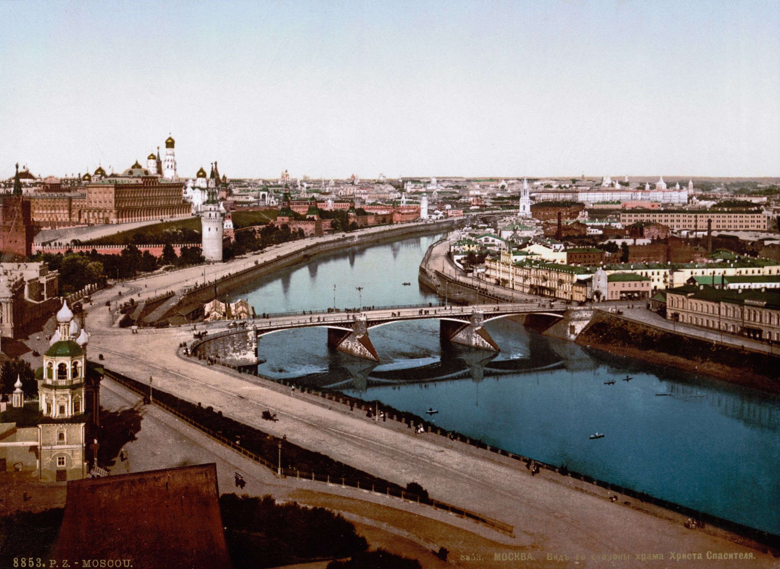 19th-century postcard of view from St. Saviour's, showing Bolshoy Kamenny Bridge over the Moskva River in Moscow. Print no. "8853". See also File:Панорама с ХХС.jpg - same image, lower resolution, different colour balance.